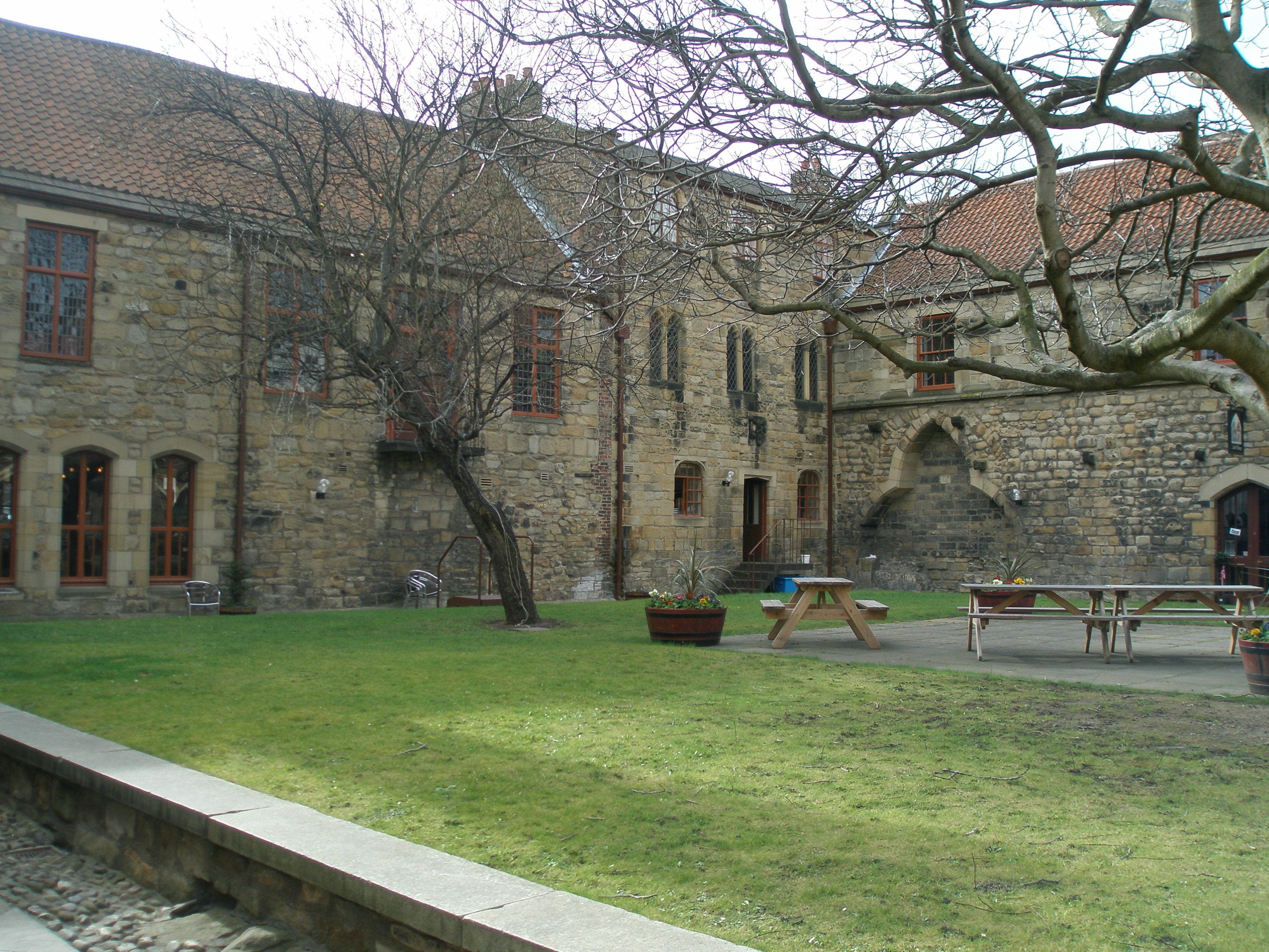 Rear view of Blackfriars (former friary) in Newcastle-upon-Tyne